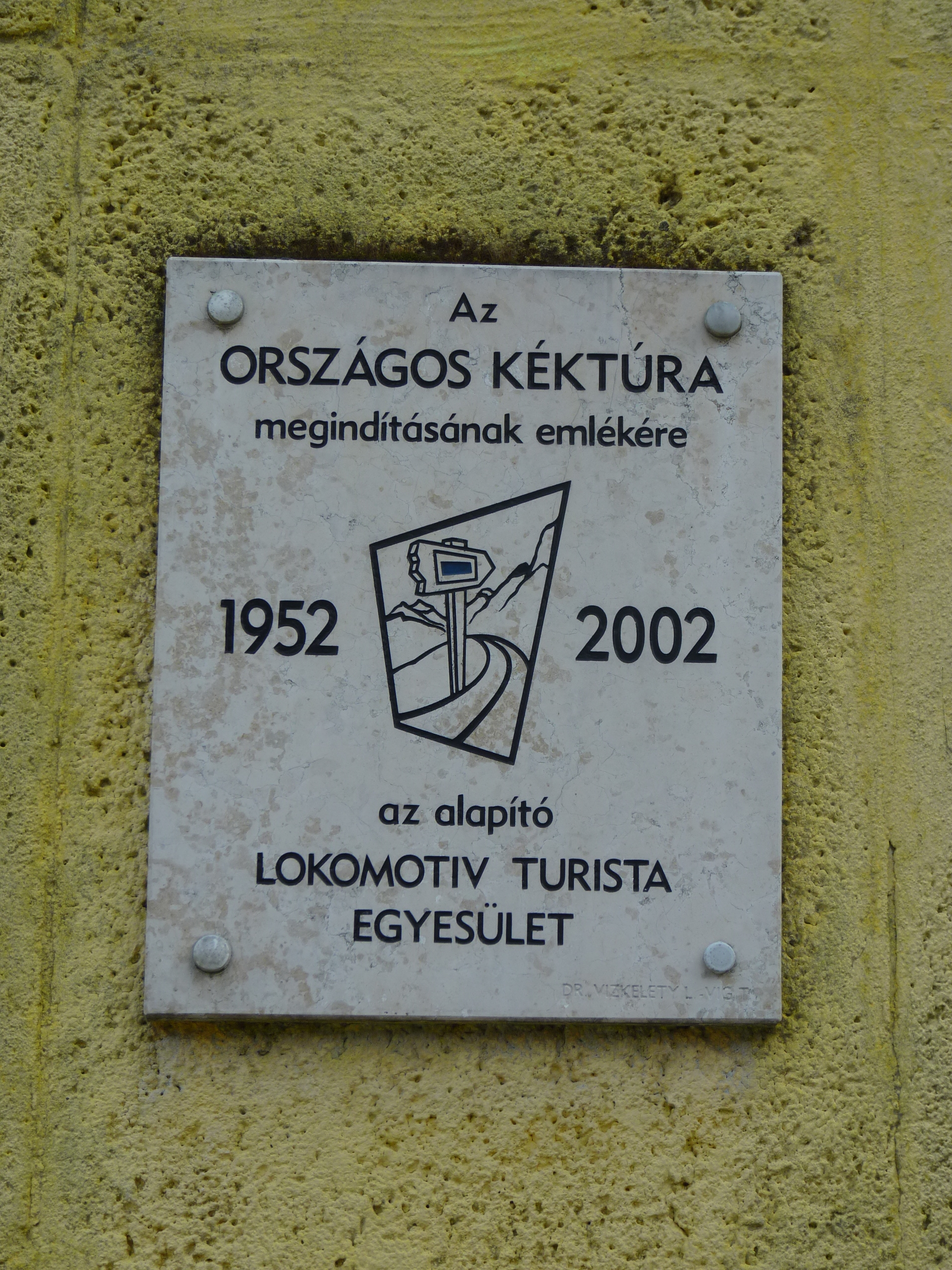 Országos Kéktúra Plaque at Hűvösvölgy Railway Station